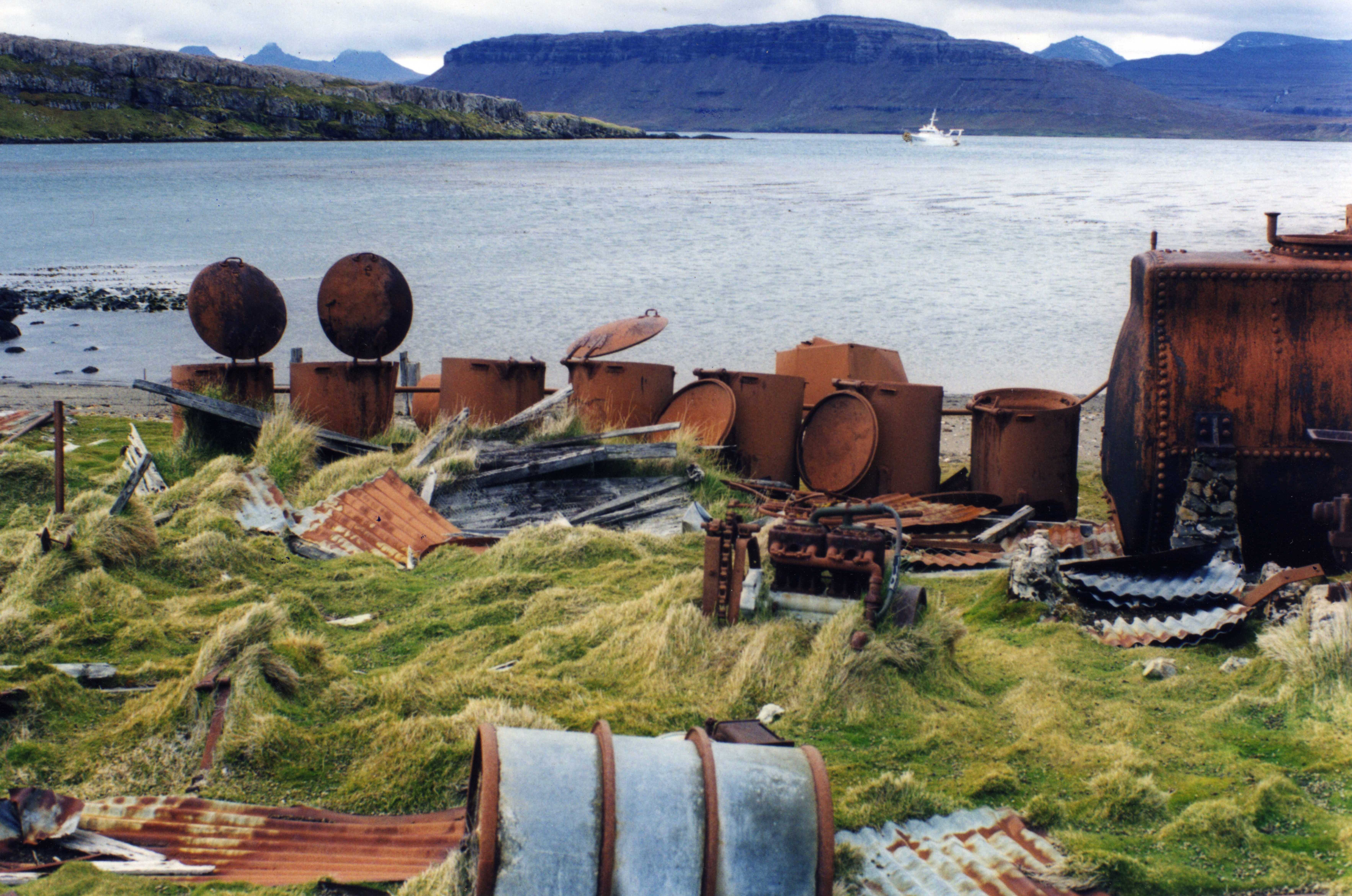 Remains of vats and boilers at Port-Couvreux (Kerguelen Islands) that have been used for the making of elephant seal oil at the beginning of the XXth century (penguins or gentoos were crushed and burnt as the fuel source to fuse the blubber)